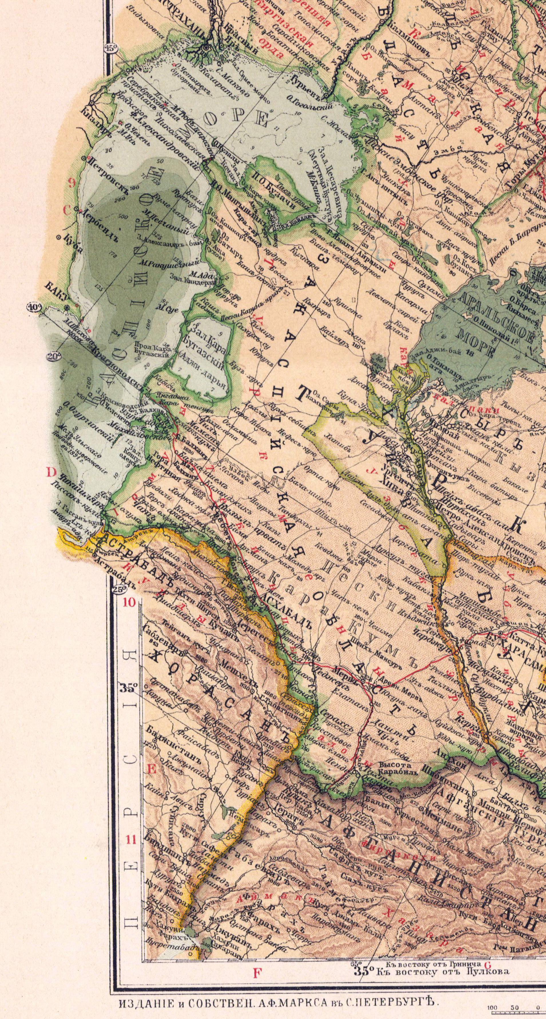 Map of Transcaspian Oblast (Russian Empire)